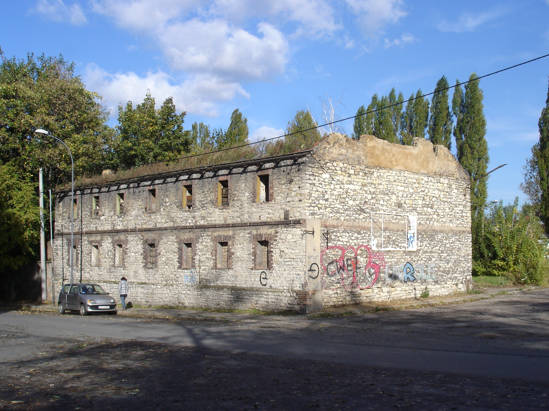 The demolished (in 2017) house made from limestone in the former grange complex in Bytom, Łagiewniki, św. Cyryla i Metodego 50a, former cultural heritage monument nr A/332/11 of 13.04.2011, deleted from the list.